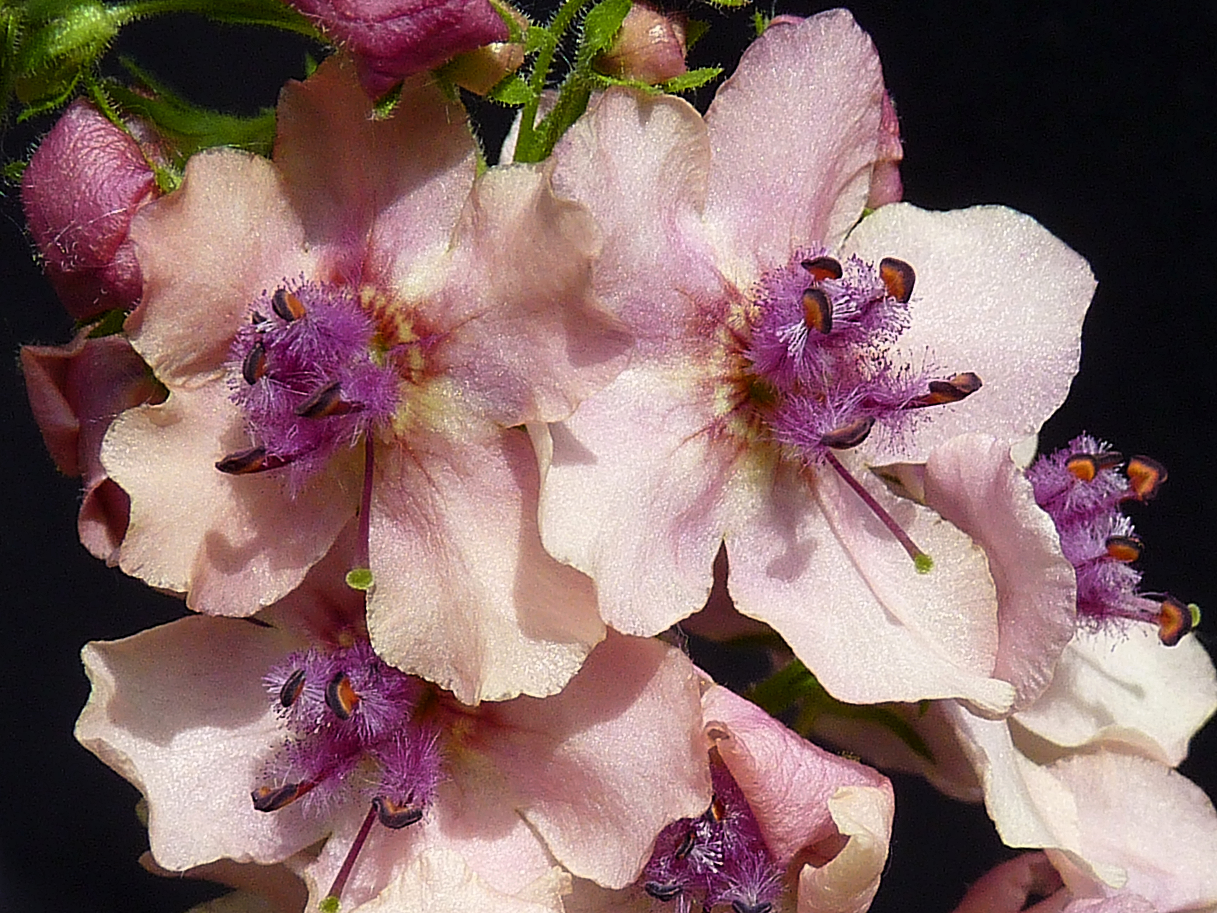 Verbascum phoeniceum, in a garden in Belgium.